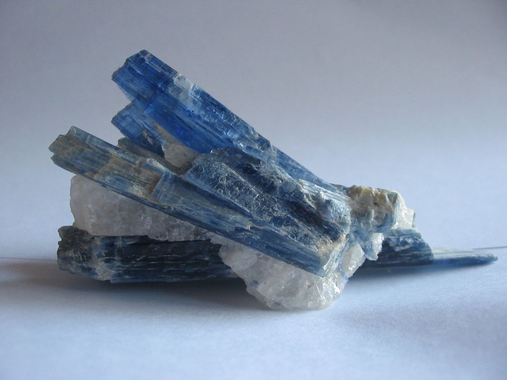 Kyanite crystals (7cm long)